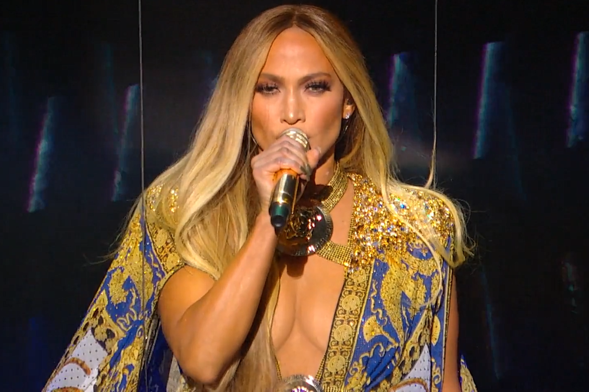 Jennifer Lopez performing at the Video Music Awards in New York City, on August 20, 2018.